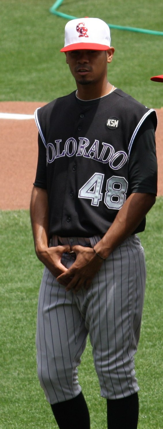 Esmil Rogers